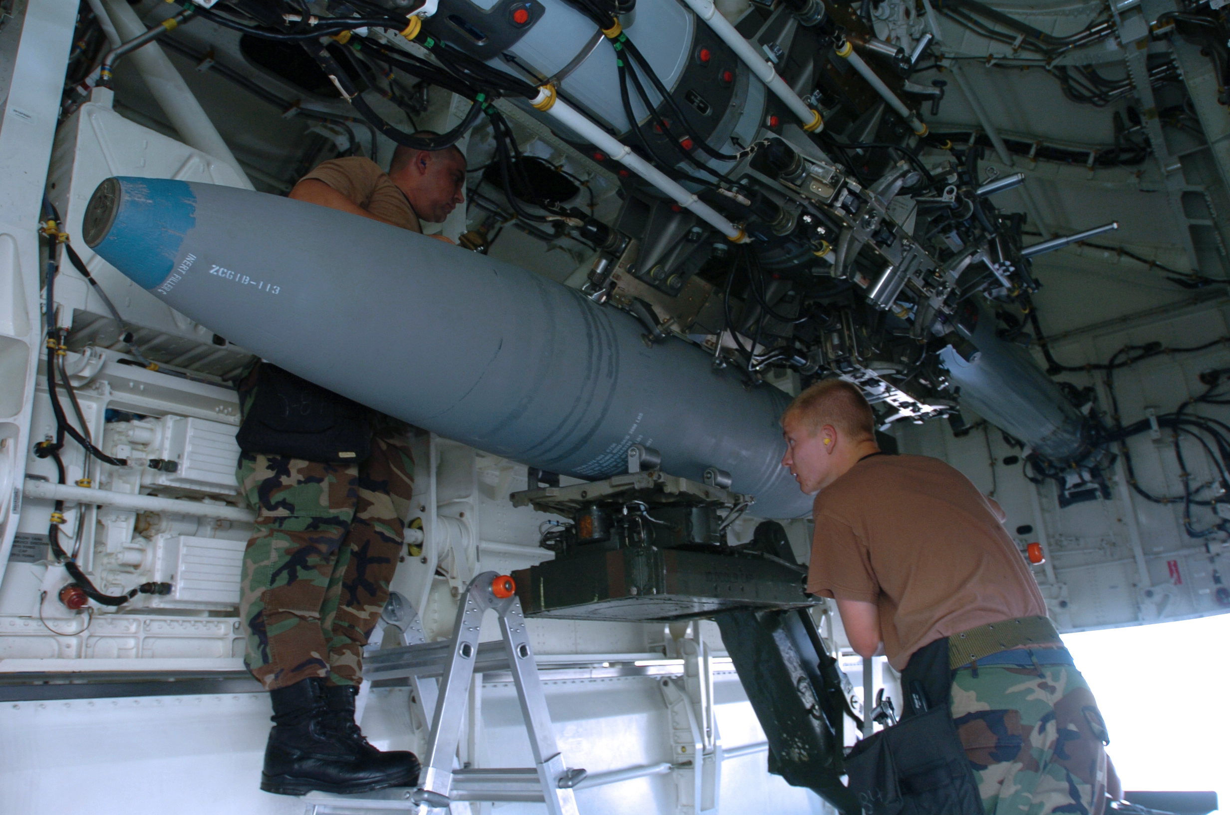 A bomb bay of a B-2 bomberANDERSEN AFB, Guam (AFPN) - Staff Sgt Michael Taylor, left, and Senior Airman Joseph Nelson, both weapons specialist from the 509th Aircraft Maintenance Squadron, Whiteman Air Force Base, MO., load a BDU-56 bomb on their B-2 Spirit bomber before a mission at Andersen AFB, Guam. The B-2's deployed here on Feb. 25 as part of a rotation that has provided U.S. Pacific Command a continous bomber presence in the Asia-Pacific region; enhancing regional security and the U.S. commitment to the Western Pacific. This rotation also provides training to integrate bombers into Pacific Air Force's joint and coalition exercises from a forward-deployed location.